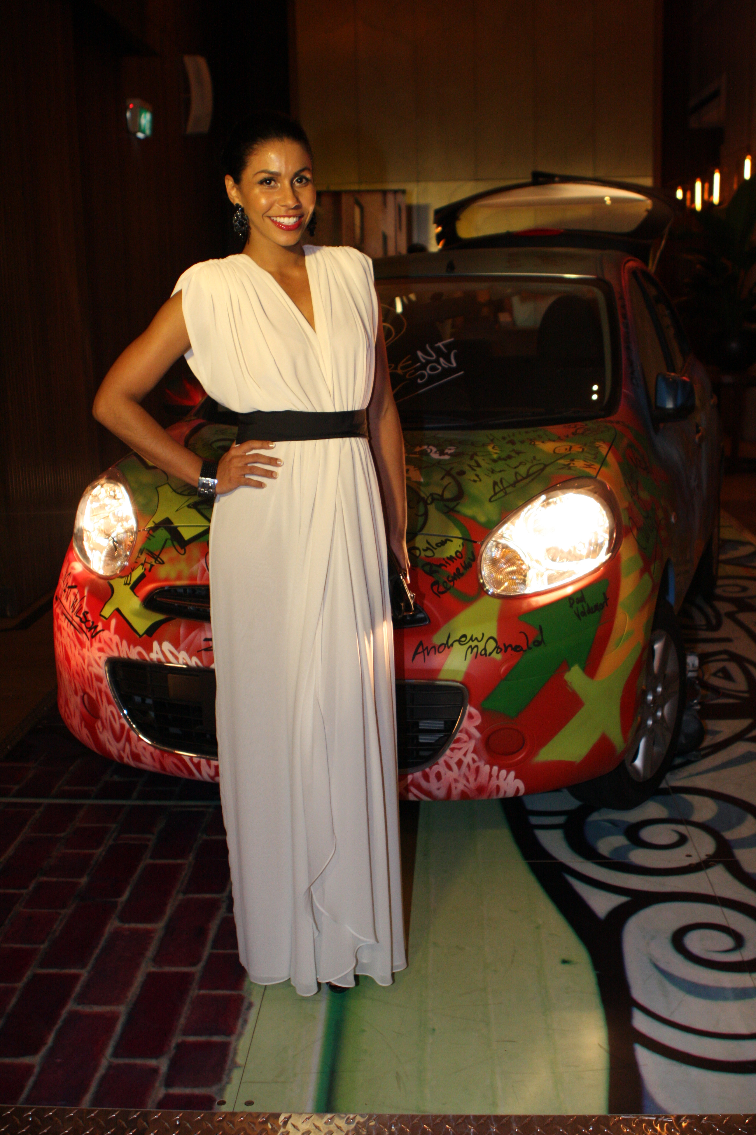 Ashleigh Francis, judge at CLEO Bachelor 2011, in front of a Nissan Micra (K13)